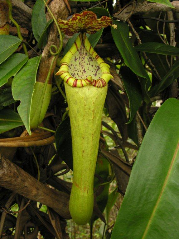 Nepenthes boschiana upper pitcher, Mount Sakumbang, Borneo